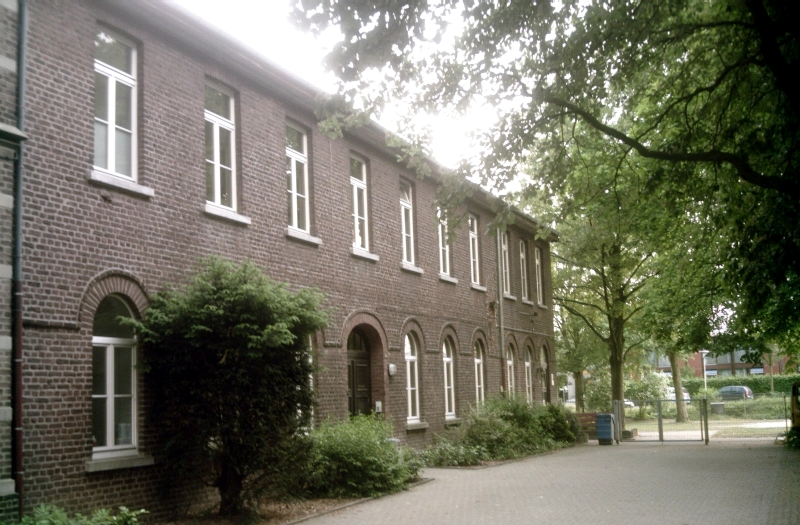 Basic school building in Hülsdonk, Viersen, Germany.